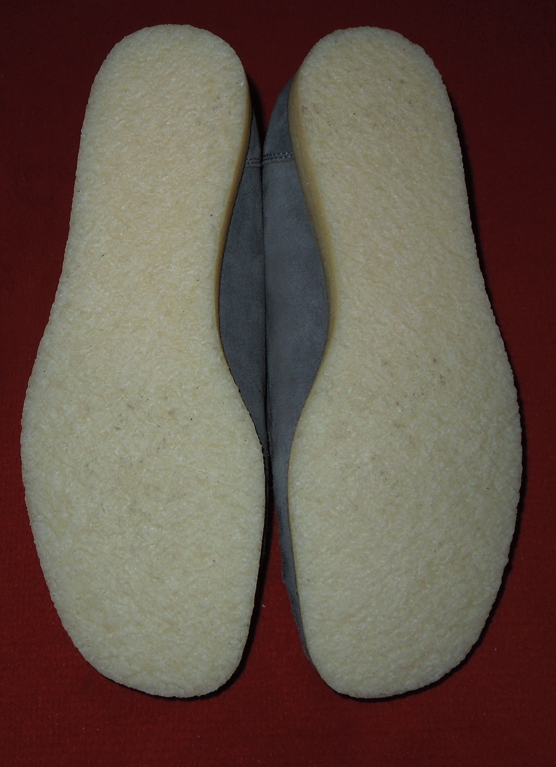 Latex shoe soles